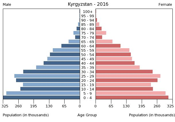 The population pyramid of Kyrgyzstan illustrates the age and sex structure of population and may provide insights about political and social stability, as well as economic development. The population is distributed along the horizontal axis, with males shown on the left and females on the right. The male and female populations are broken down into 5-year age groups represented as horizontal bars along the vertical axis, with the youngest age groups at the bottom and the oldest at the top. The shape of the population pyramid gradually evolves over time based on fertility, mortality, and international migration trends.